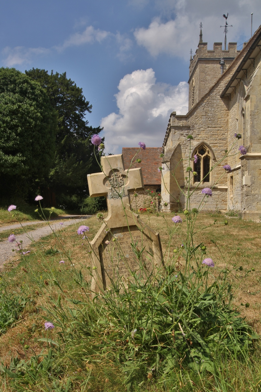 Headstone of Robert French Laurence (1807–85), Vicar of Chalgrove and Rector of Berrick Salome, in the parish churchyard of St Mary the Virgin, Chalgrove, Oxfordshire